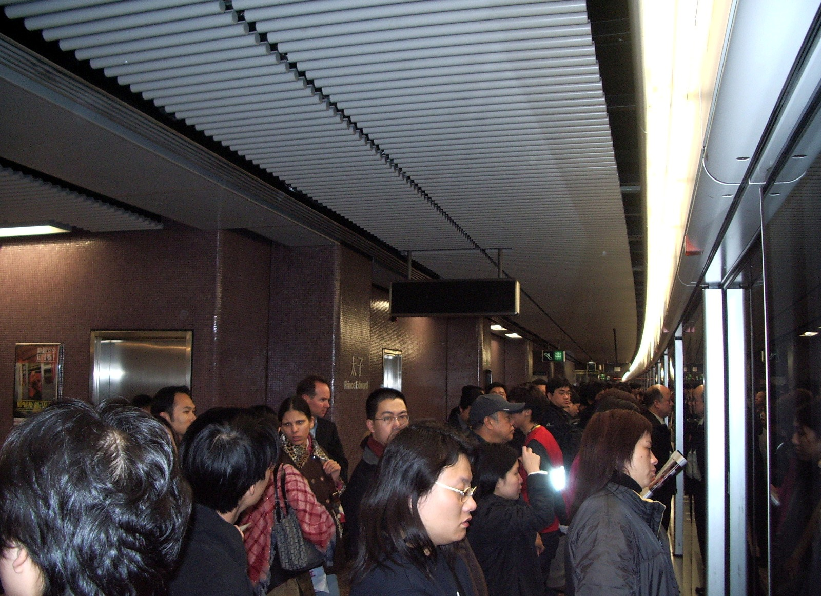 MTR Prince Edward station platforms